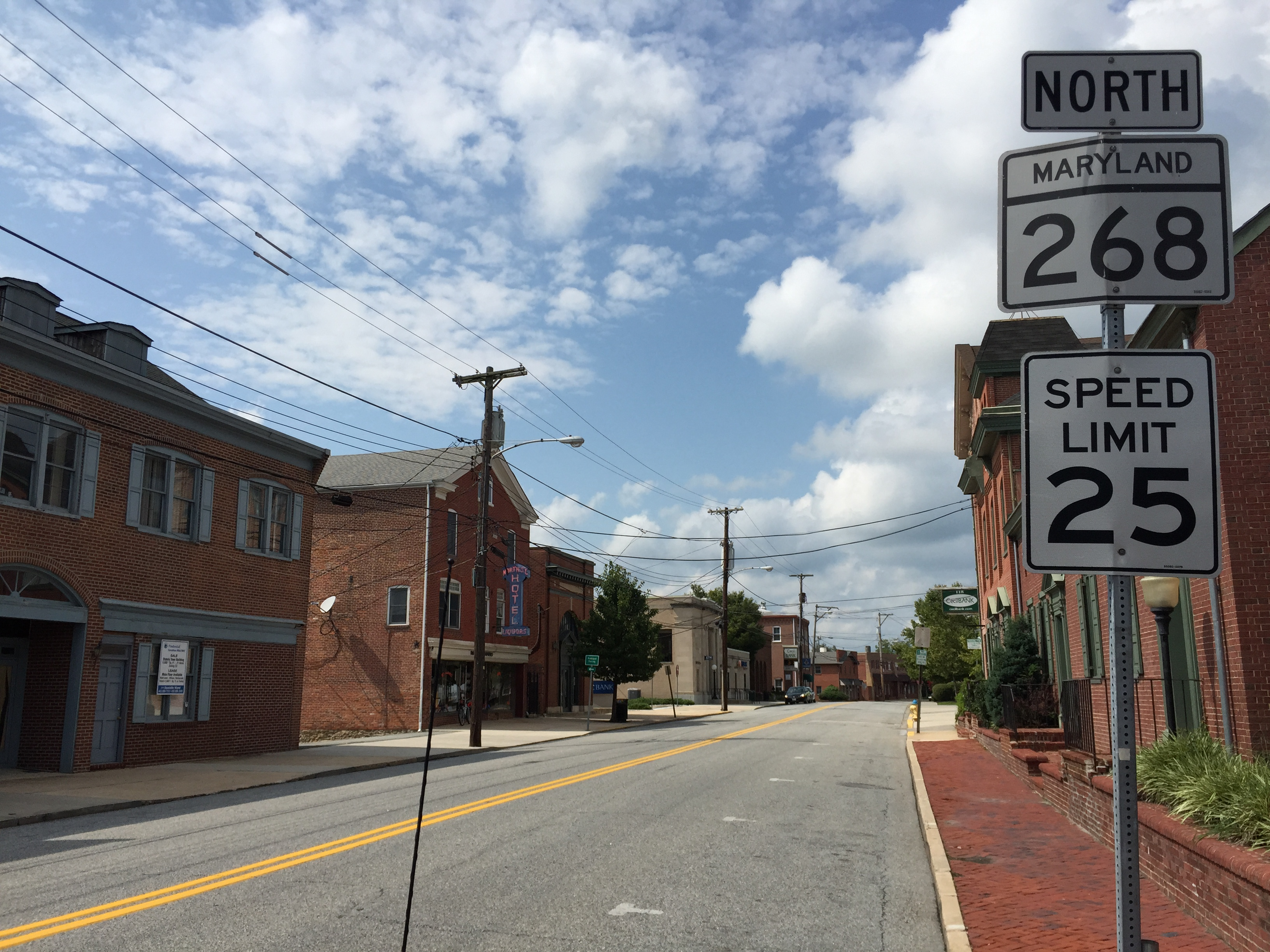 View north along Maryland State Route 268 (North Street) at Maryland State Route 7 (Main Street) in Elkton, Cecil County, Maryland